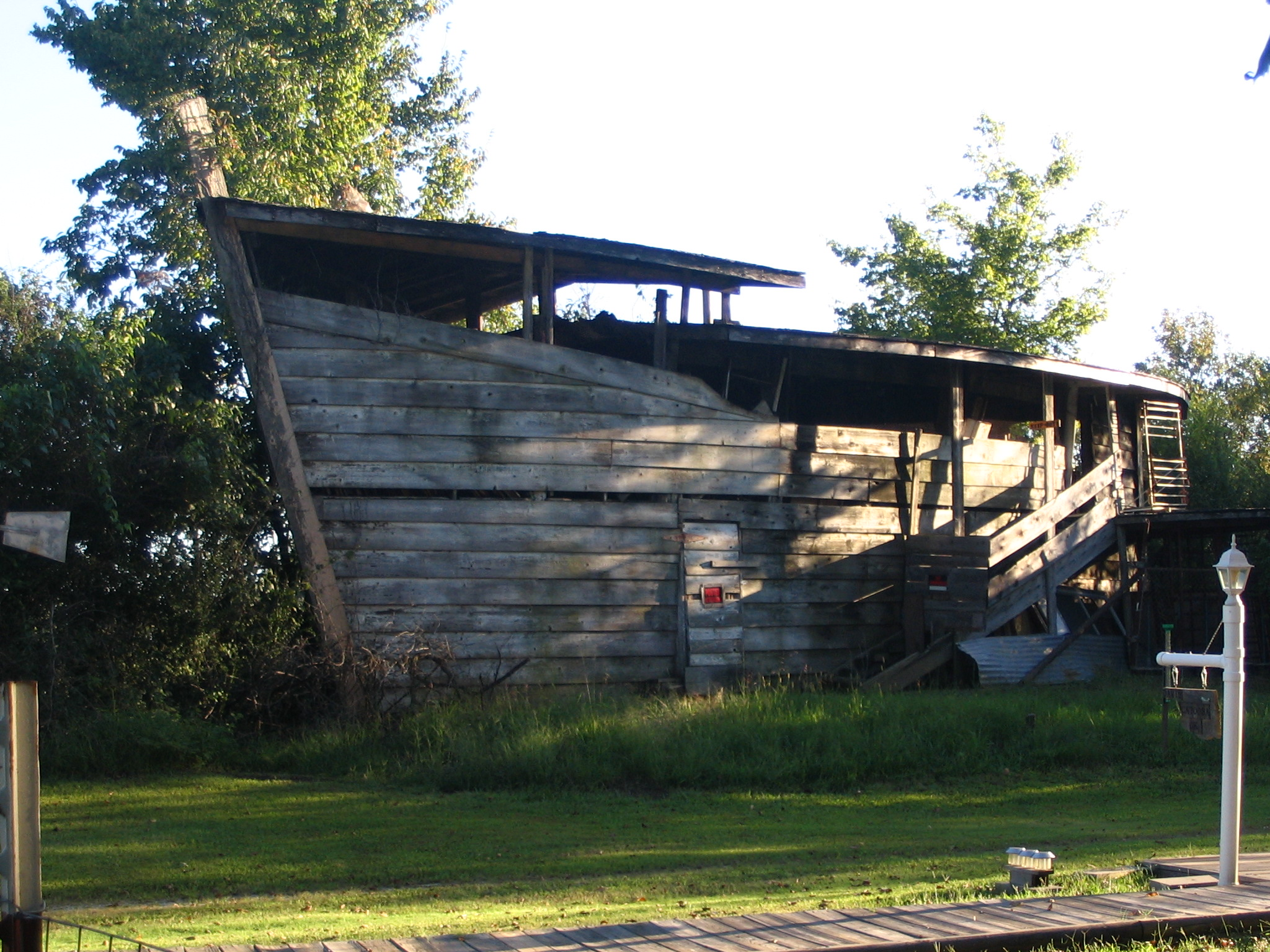 Former zoo like attraction next to the Blue Whale of Catoosa.